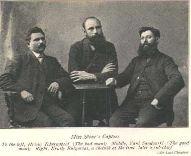 Hristo Chernopeev, Yane Sandanski and Krstio Bulgariata from IMARO - those who captured miss Stone